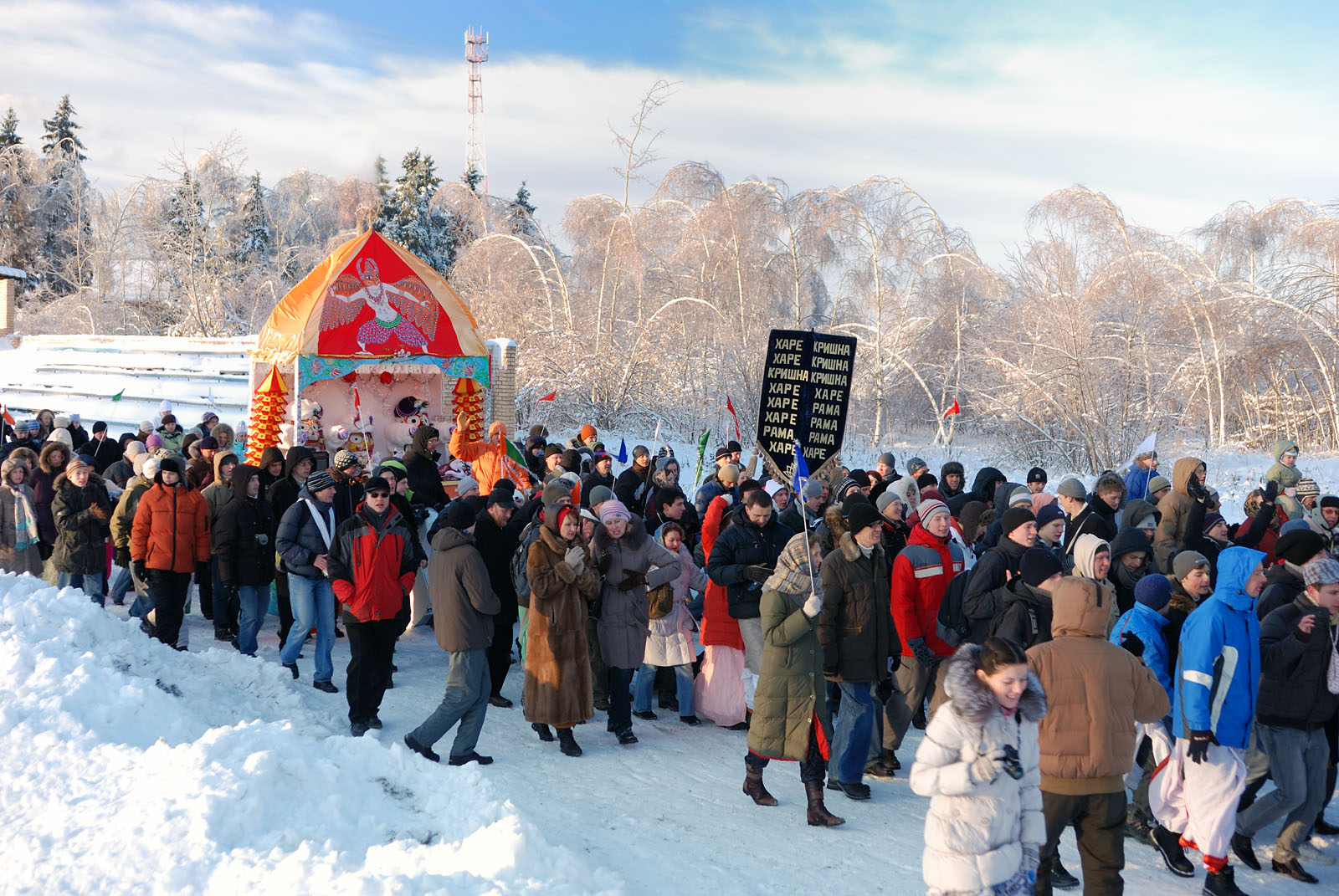 Rath Yatra in Moscow region, Russia in winter (2011 year)